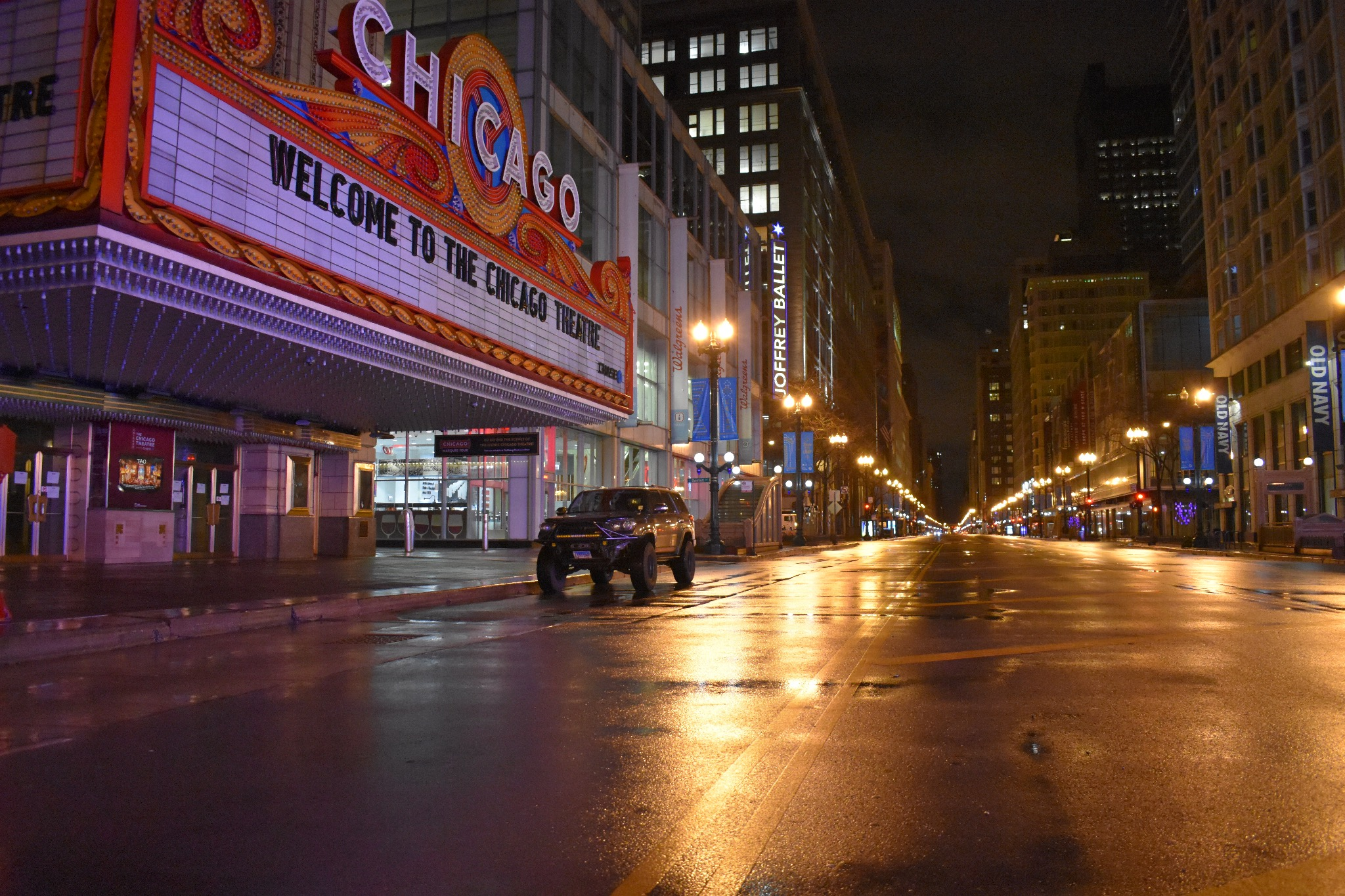 March 20th, 2020 when Chicago came to a stop..